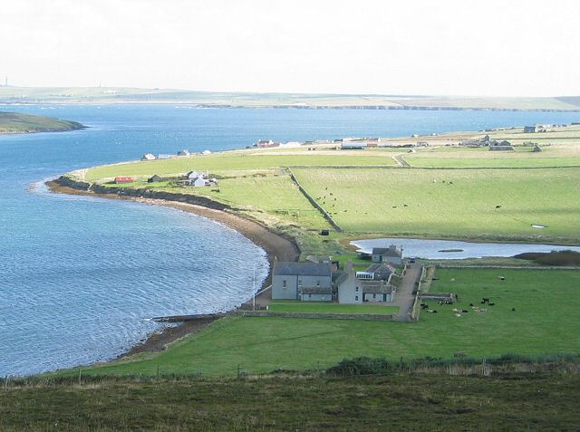 Carrick House, Eday. Looking west. The eastern tip of Calf of Eday can just be seen, and in the distance, Sanday.